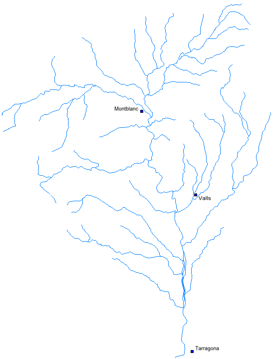 River Francolí Drainage Basin (Catalonia)